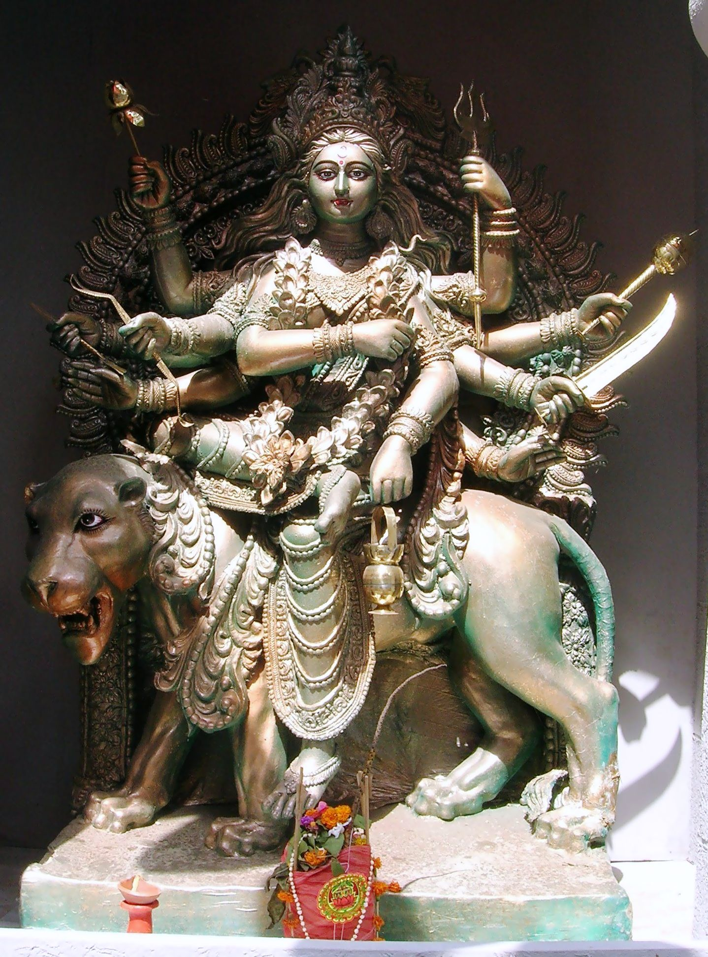 Devi Chandraghanta, Sanghasri, Kalighat, Kolkata, 2010.